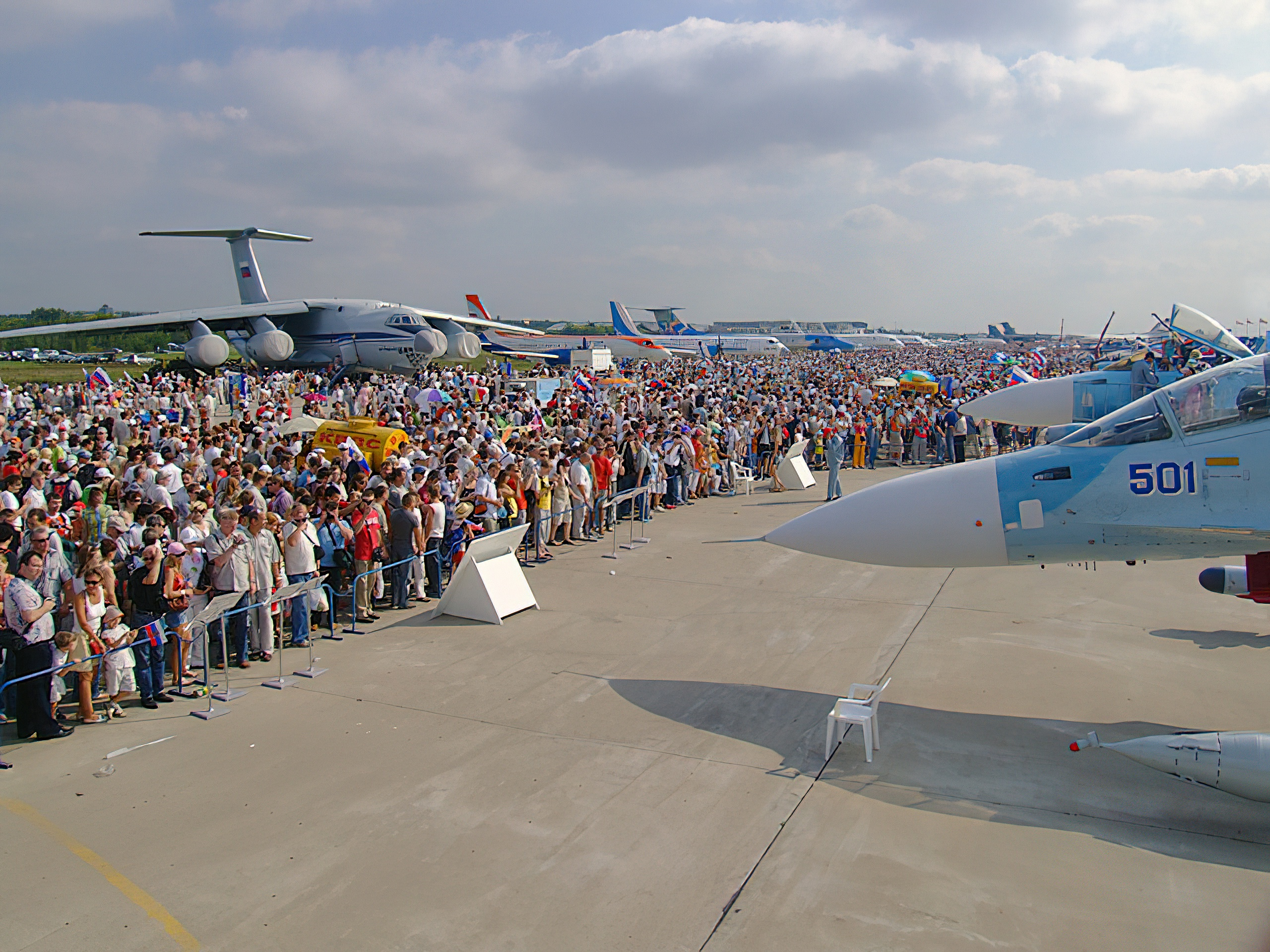 MAKS Airshow-2007